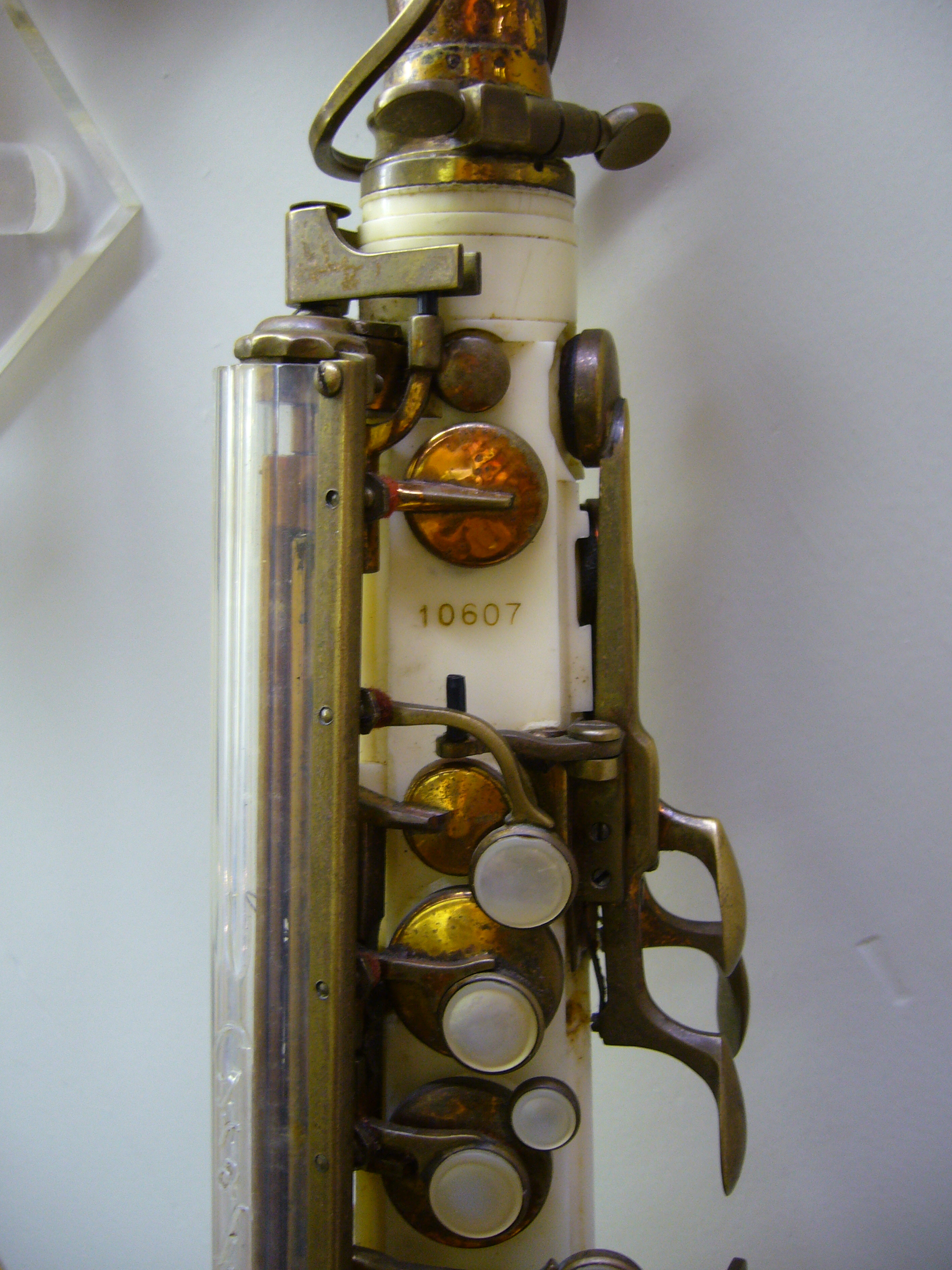 Grafton saxophone - showing the unusual location of the serial number, situated above the Front-F key. Most saxophone serial numbers are stamped on the rear of the saxophone, just above the bow.